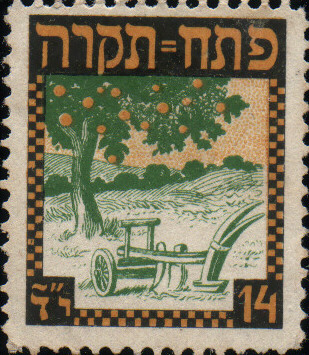 Petah Tikva Stamp